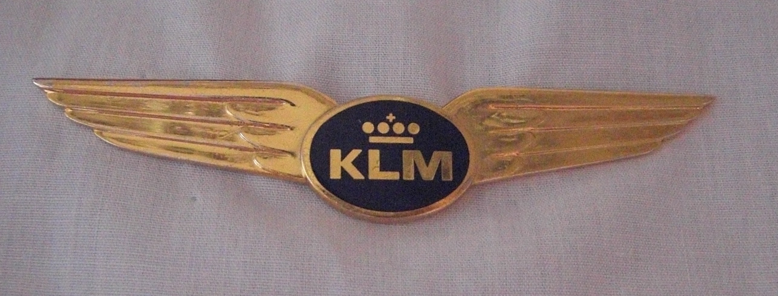 KLM Wing (gold).